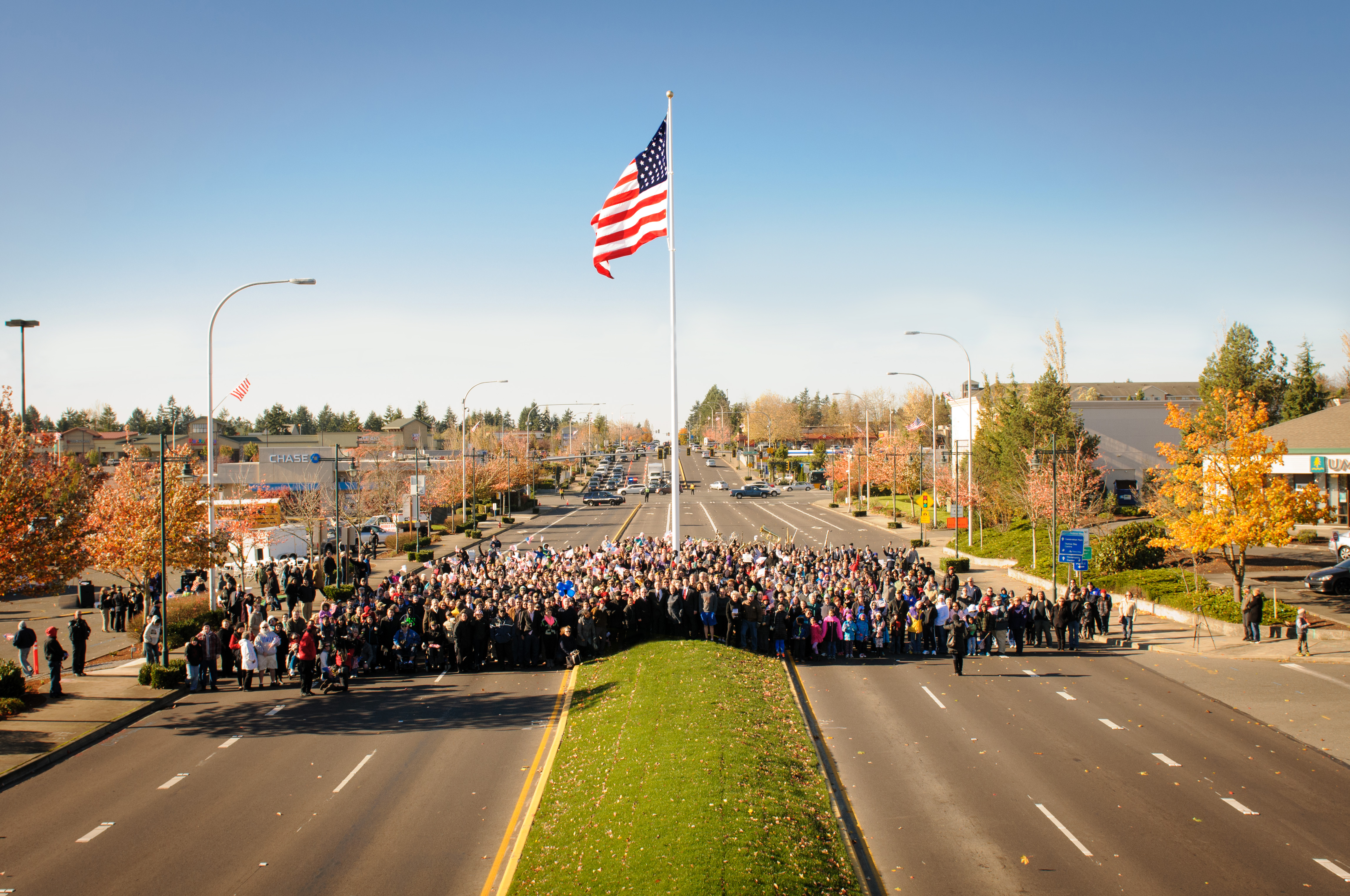 November 11, 2014 Dedication of Downtown Flag and Veterans Way. Flag raised by U.S. Senator Patty Murray, King County Councilmember Pete von Reichbauer, Mayor Jim Ferrell, City Council, Bob Kellogg and hundreds of community members.